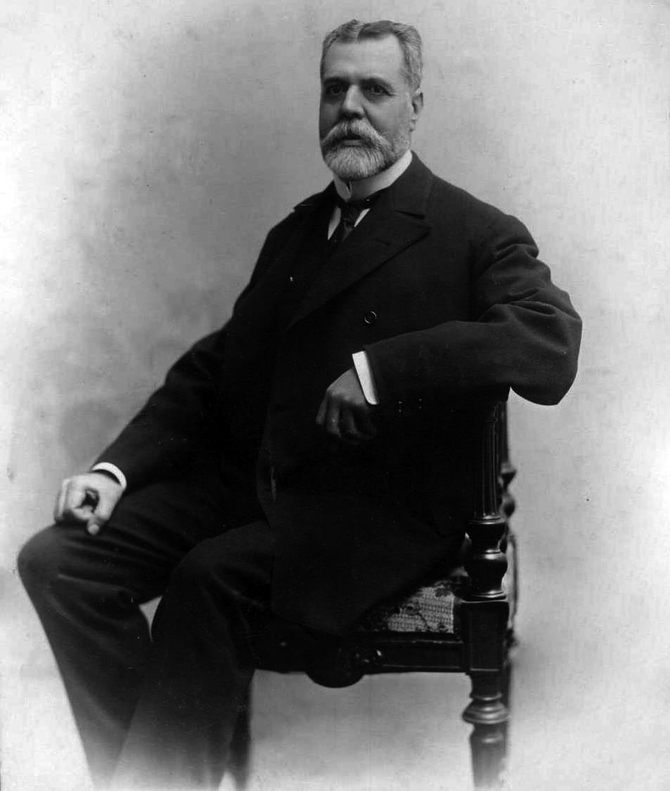 Portrait of Francisco Maristany y Garriga by Compañía fotográfica Napoleón